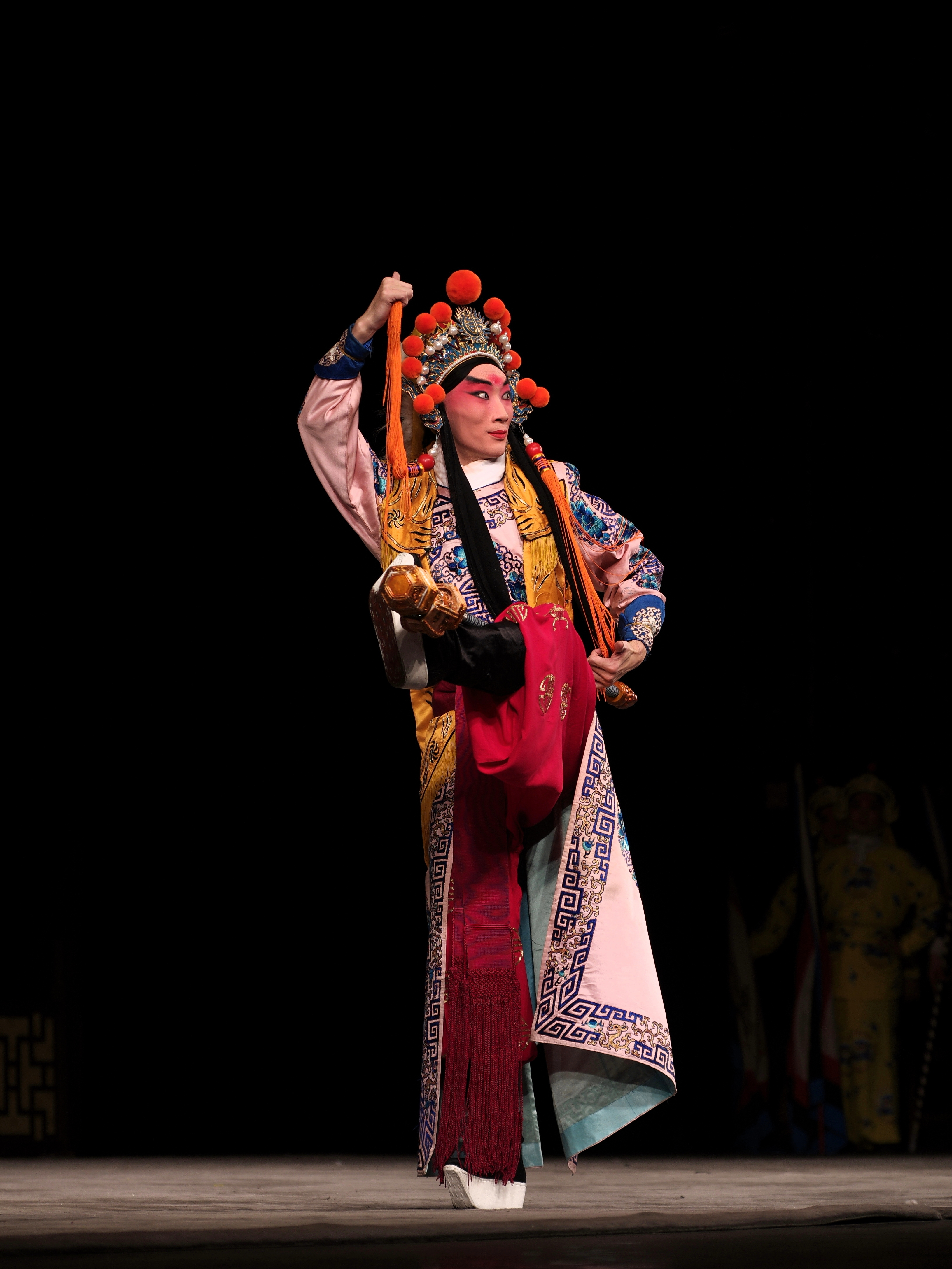 A Peking opera performance in Tianchan Theatre by Shanghai Jingju Theatre Company. Wang Xilong (王玺龙) stars as Li Cunxiao.